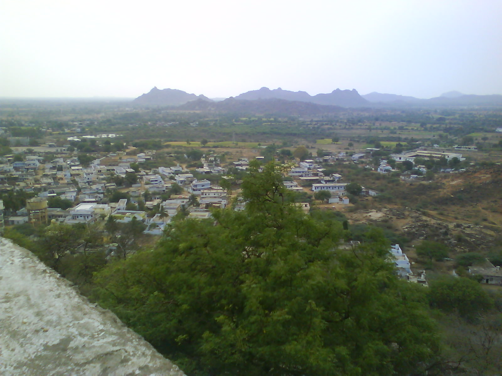 This is a picture of Yadagirigutta village from the temle hill